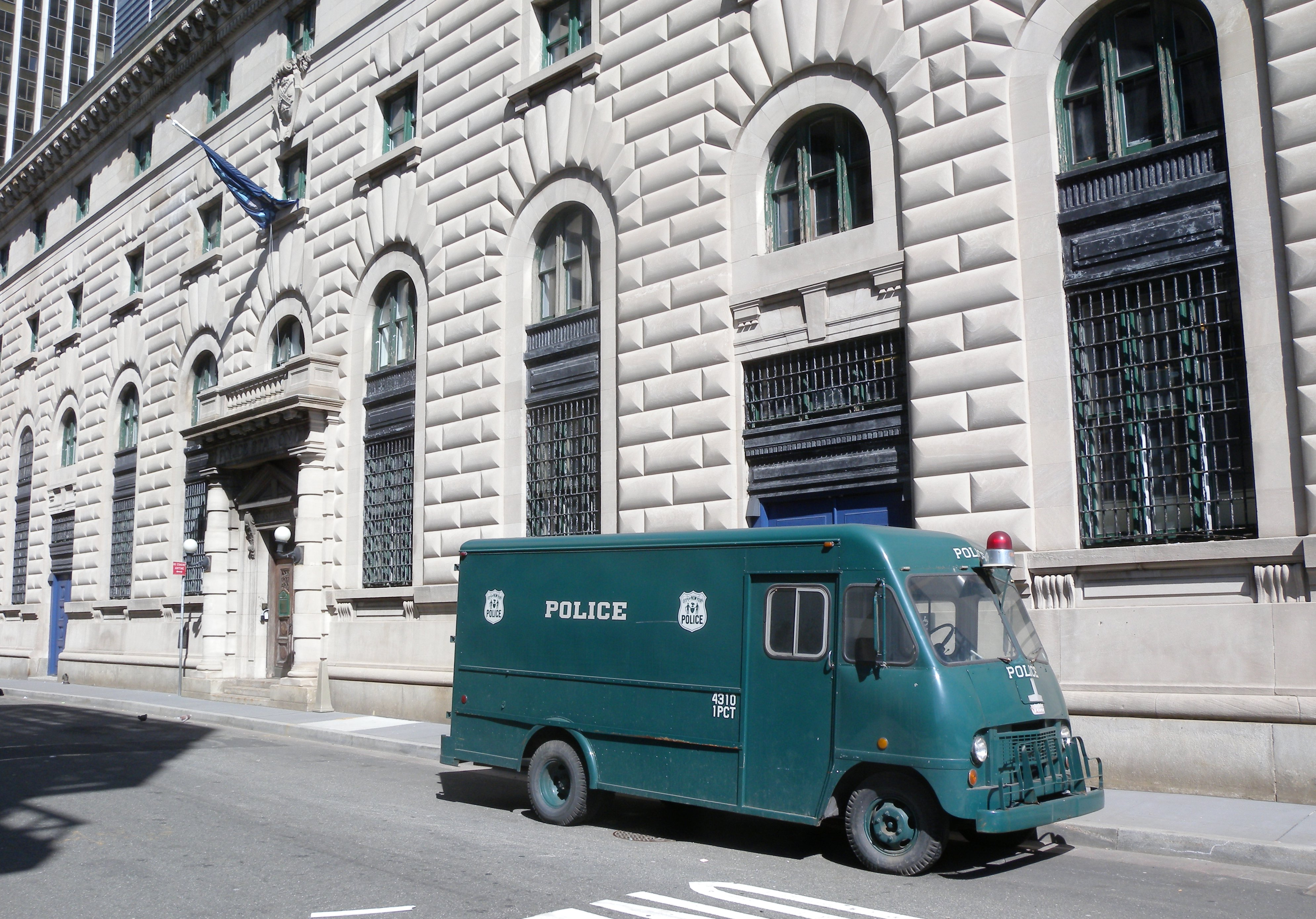 Looking north at antique van parked in front of museum on a sunny midday.